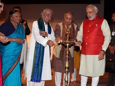 Narendra Modi in Birju Maharaj's Amrut Parva celebration